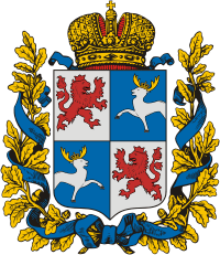 Coat of arms of Kurlandia (Courland) Governorate, Russian Empire.